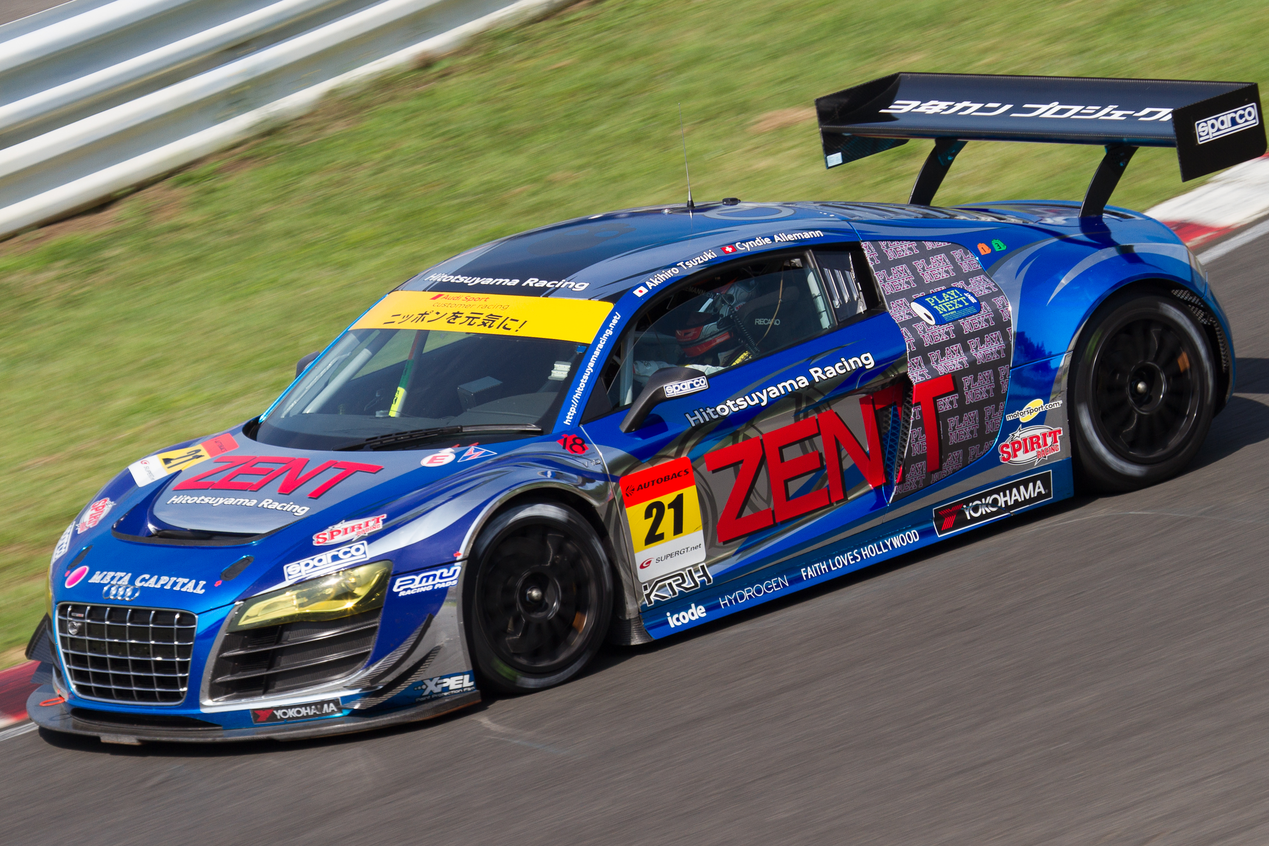 Super GT 2012 Rd.4 SUGO GT 300km: Cyndie Allemann (Hitotsuyama Racing) driving the Audi R8 LMS.